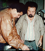 image depicting capture of gilberto rodriguez orejuela.